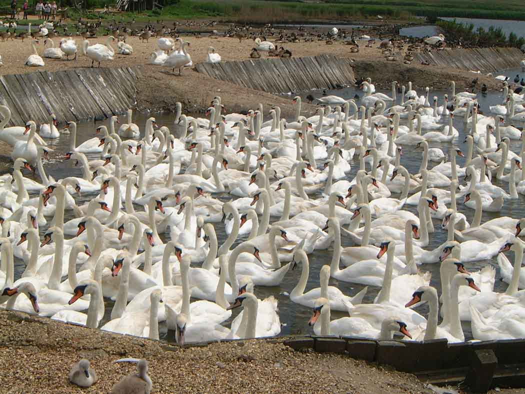 Personal photograph taken by Mick Knapton on June 26th 2005.